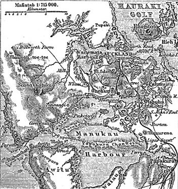 1888 German map of Auckland, New Zealand